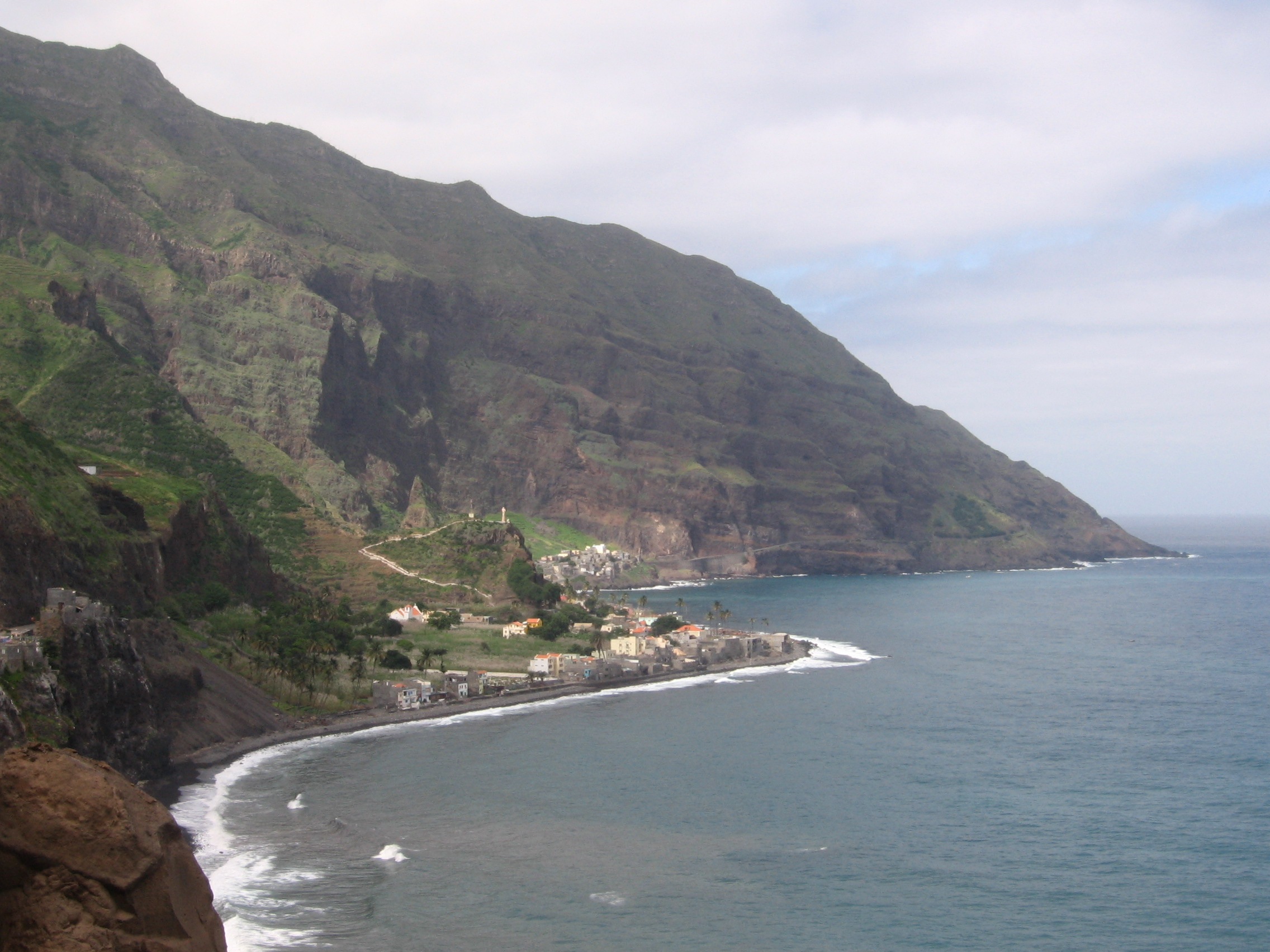 Main view of Vila das Pombas, Paul, Santo Antão, Cape Verde